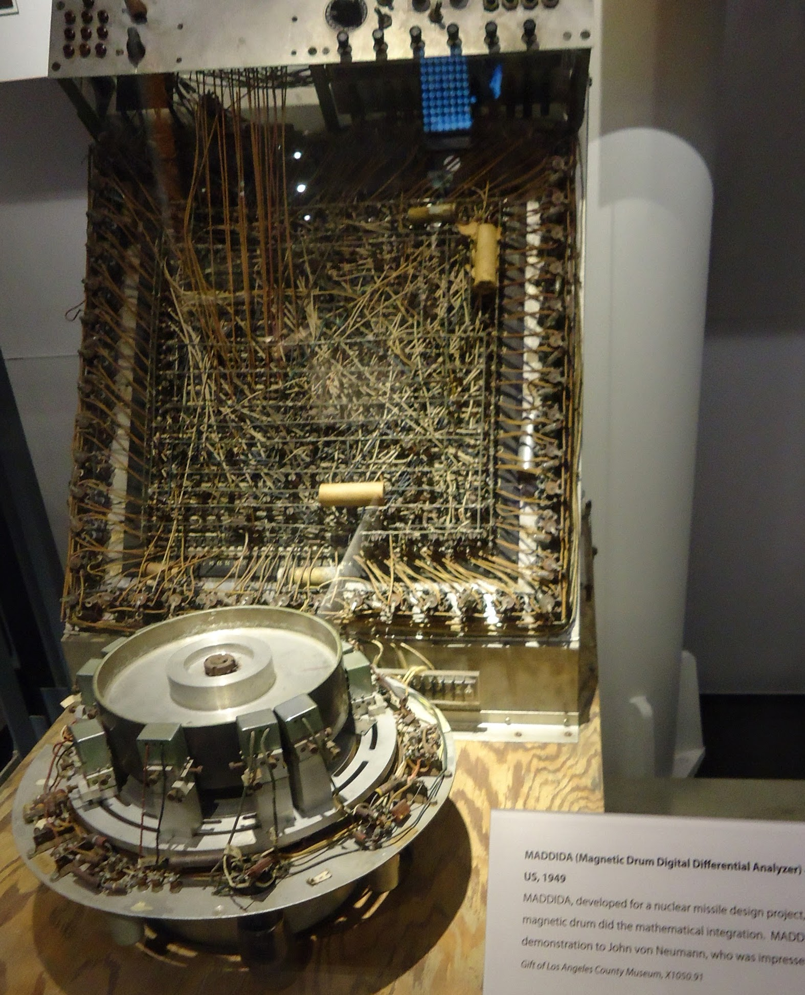 Magnetic Drum Digital Differential Analyzer (MADDIDA), U.S., 1949, on display at the Computer History Museum, a museum established in 1996 in Mountain View, California, USA, dedicated to preserving and presenting the stories and artifacts of the information age, and exploring the computing revolution and its impact on society.